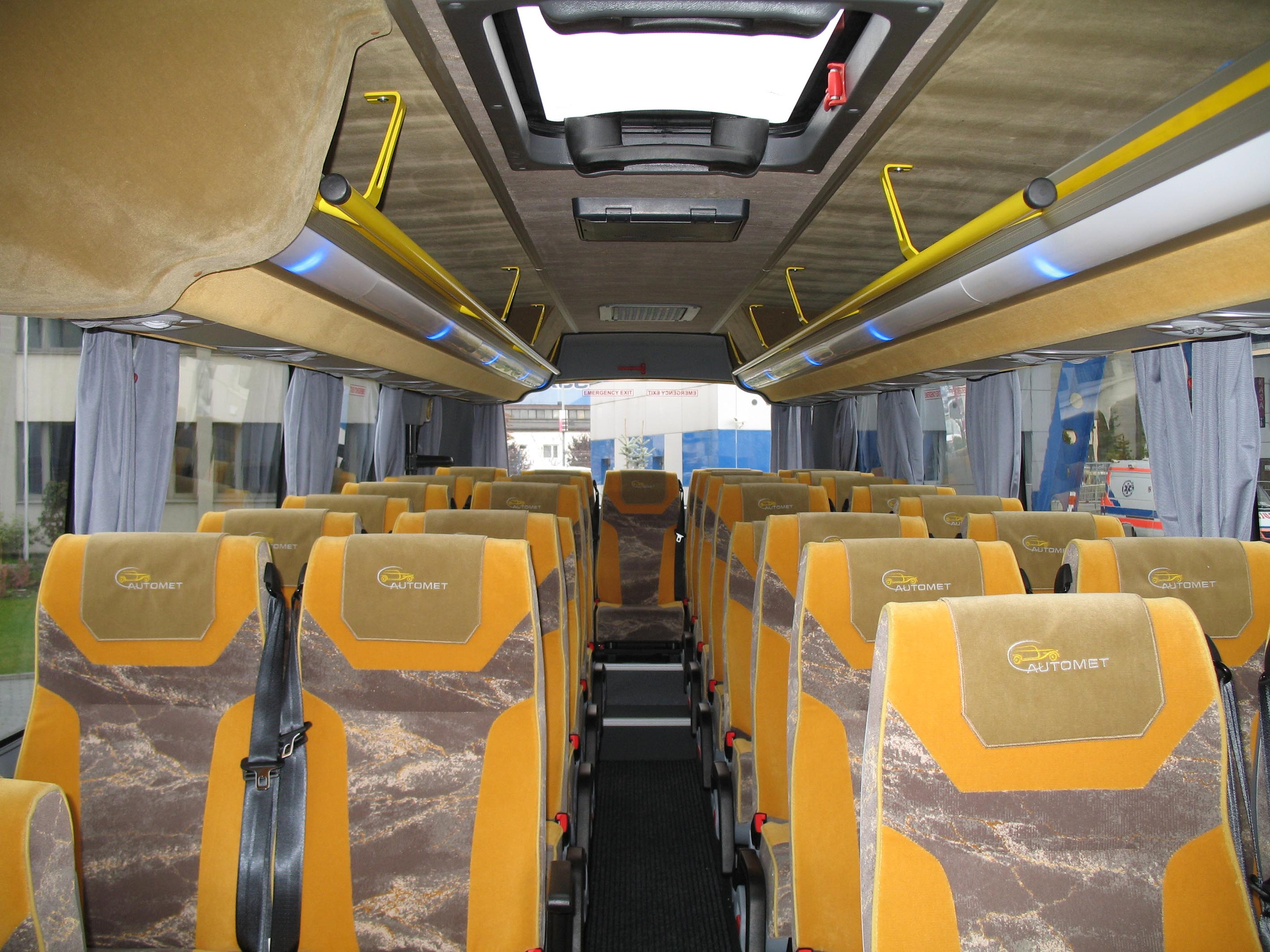 Automet Apollo bus inside in Kielce, Poland. Transexpo 2008. Base on Mercedes-Benz chassis typ 970.24.